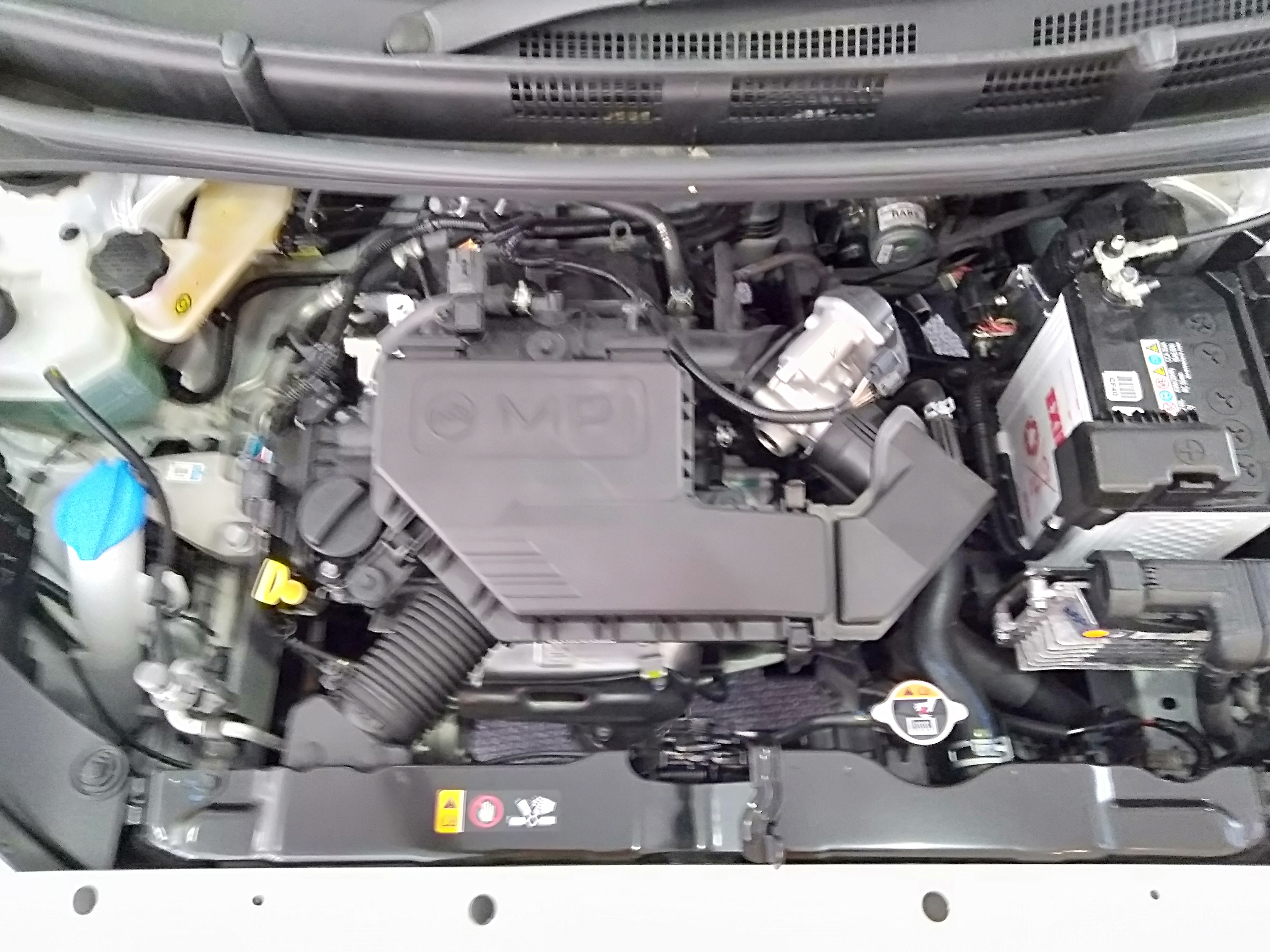 2021 Hyundai Atos Pure Base 1.1 Epsilon engine view. Photographed at Setia Motors Hyundai Bunut, Brunei.